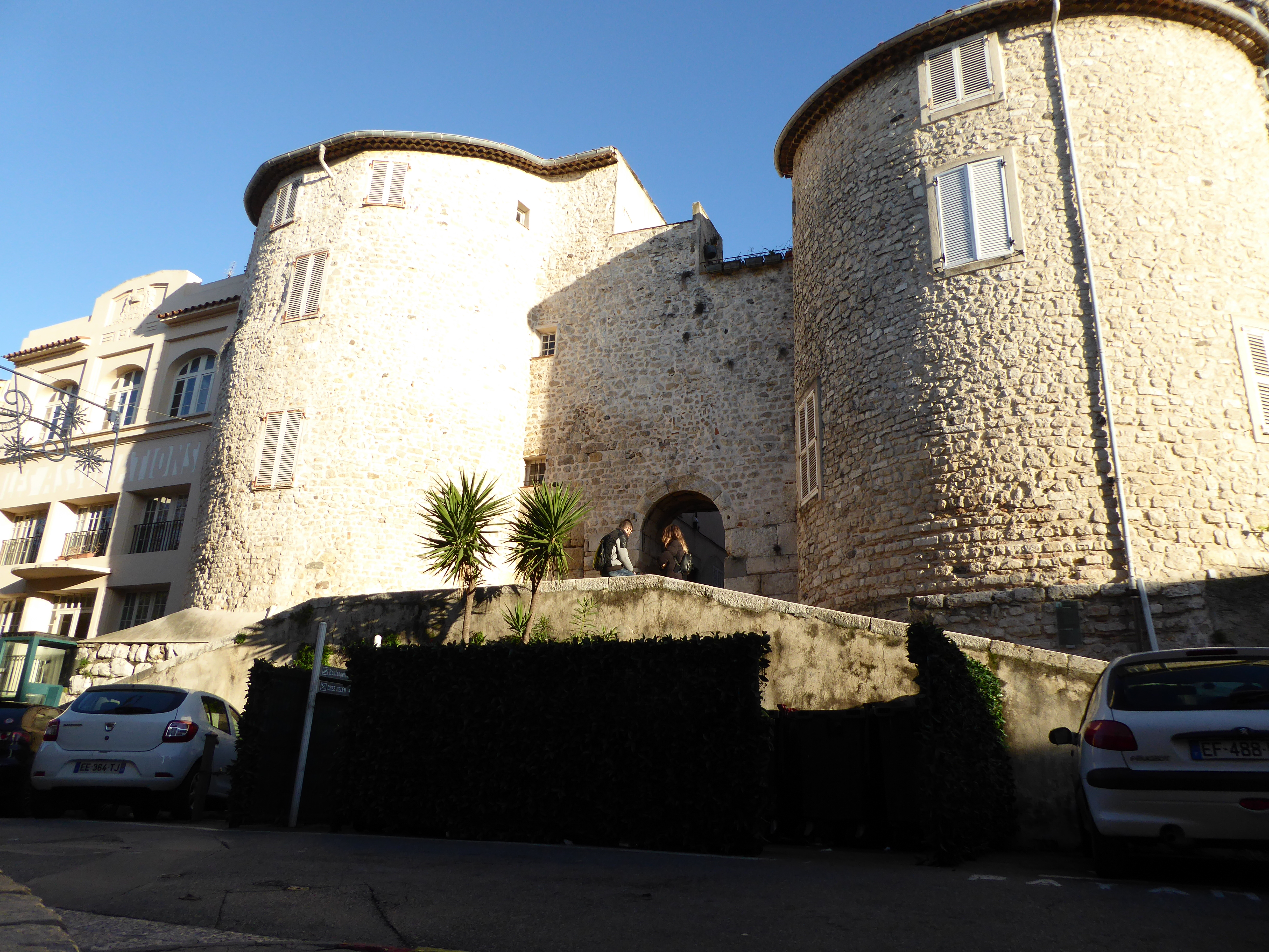 Vieille ville, Antibes